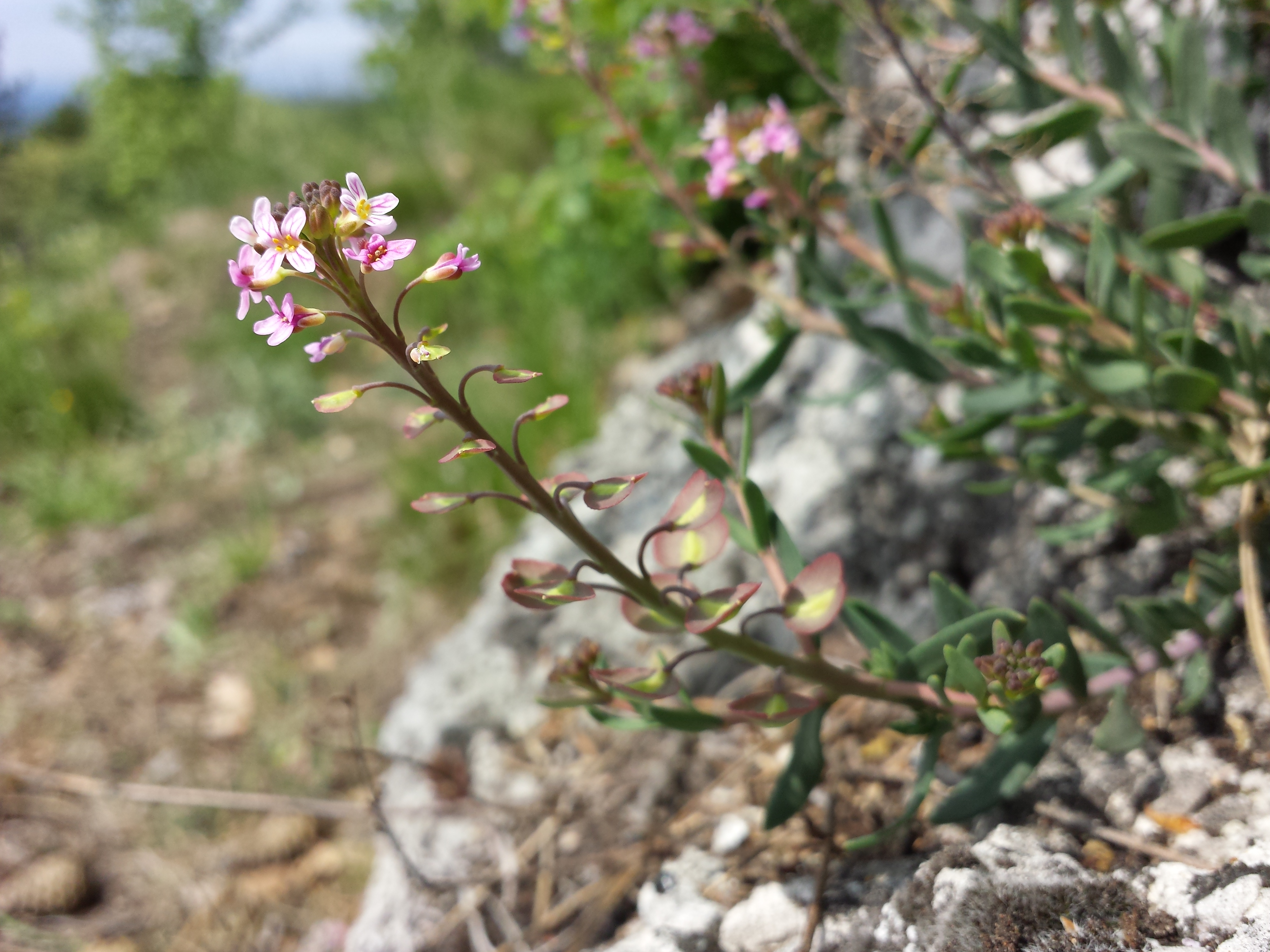 Inflorescence Taxonym: Aethionema saxatile (s. str.) ss Fischer et al. EfÖLS 2008 ISBN 978-3-85474-187-9 Location: Harzberg bei Bad Vöslau, district Baden, Lower Austria - ca. 340 m a.s.l. Habitat: carbonate rocks